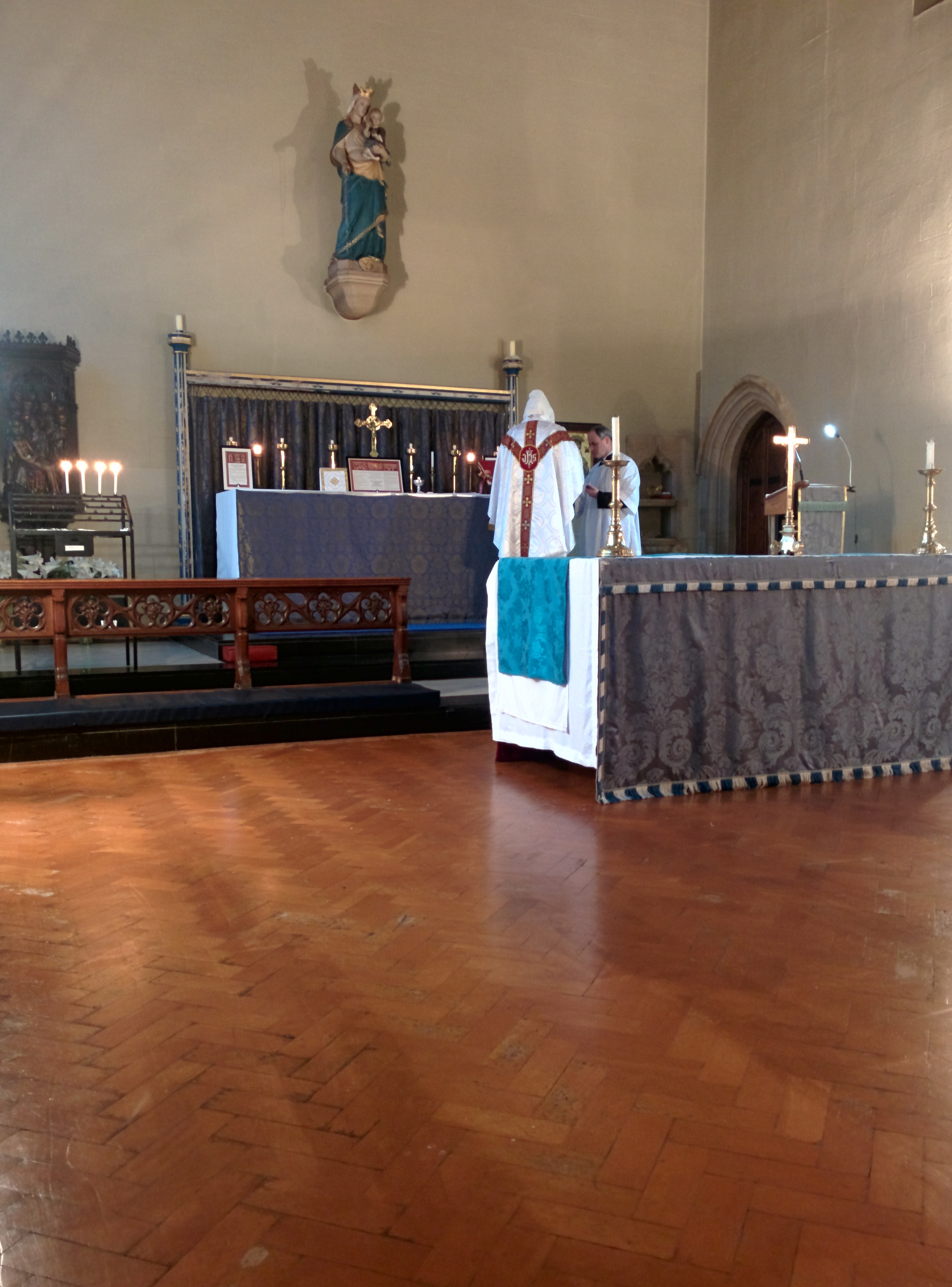 The chalice is prepared before the prayers at the foot of the altar. Image taken at Holy Cross Priory, Leicester